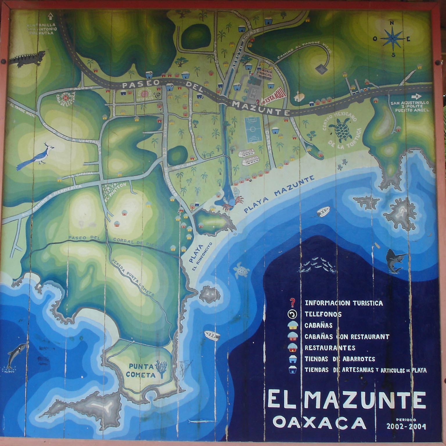 A map of Mazunte located at the Tourist Information area.